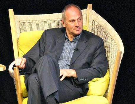 Sir Steve Redgrave, British Olympic athlete, on stage in Salisbury, England.